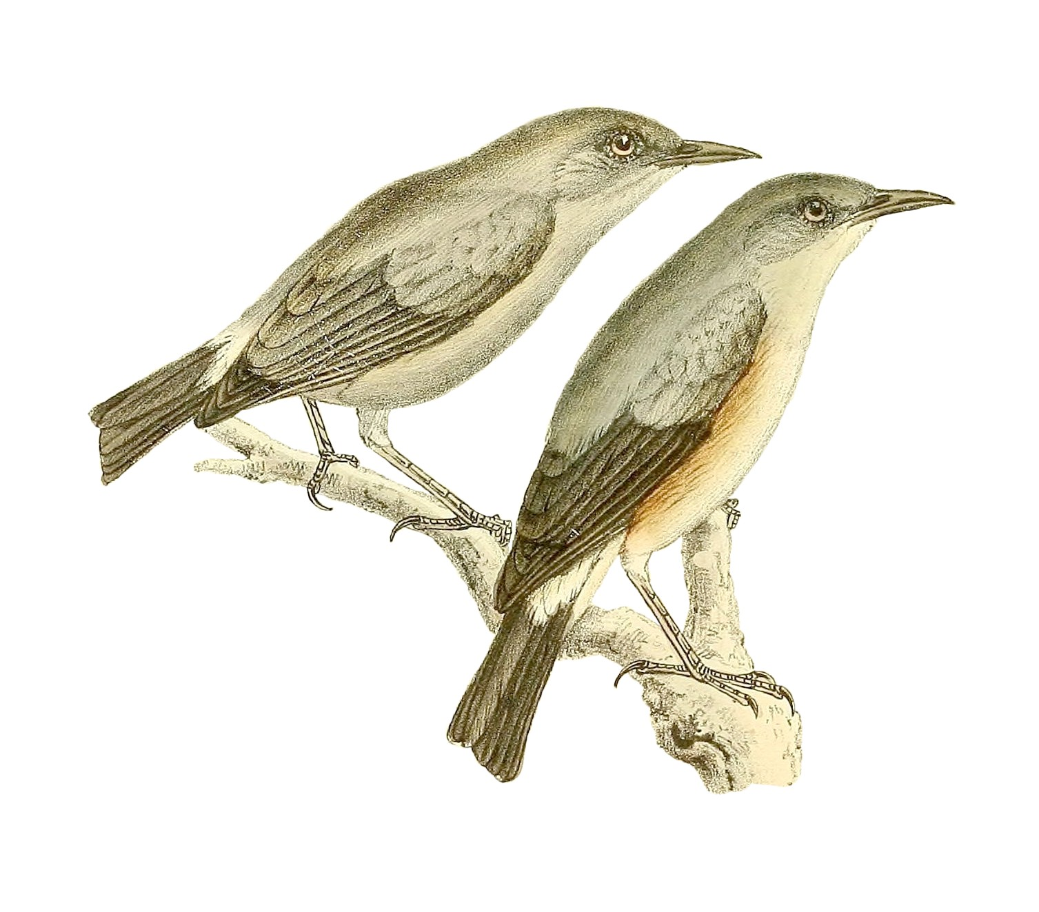 Zosterops borbonica = Zosterops borbonicus (Mascarene White-eye)